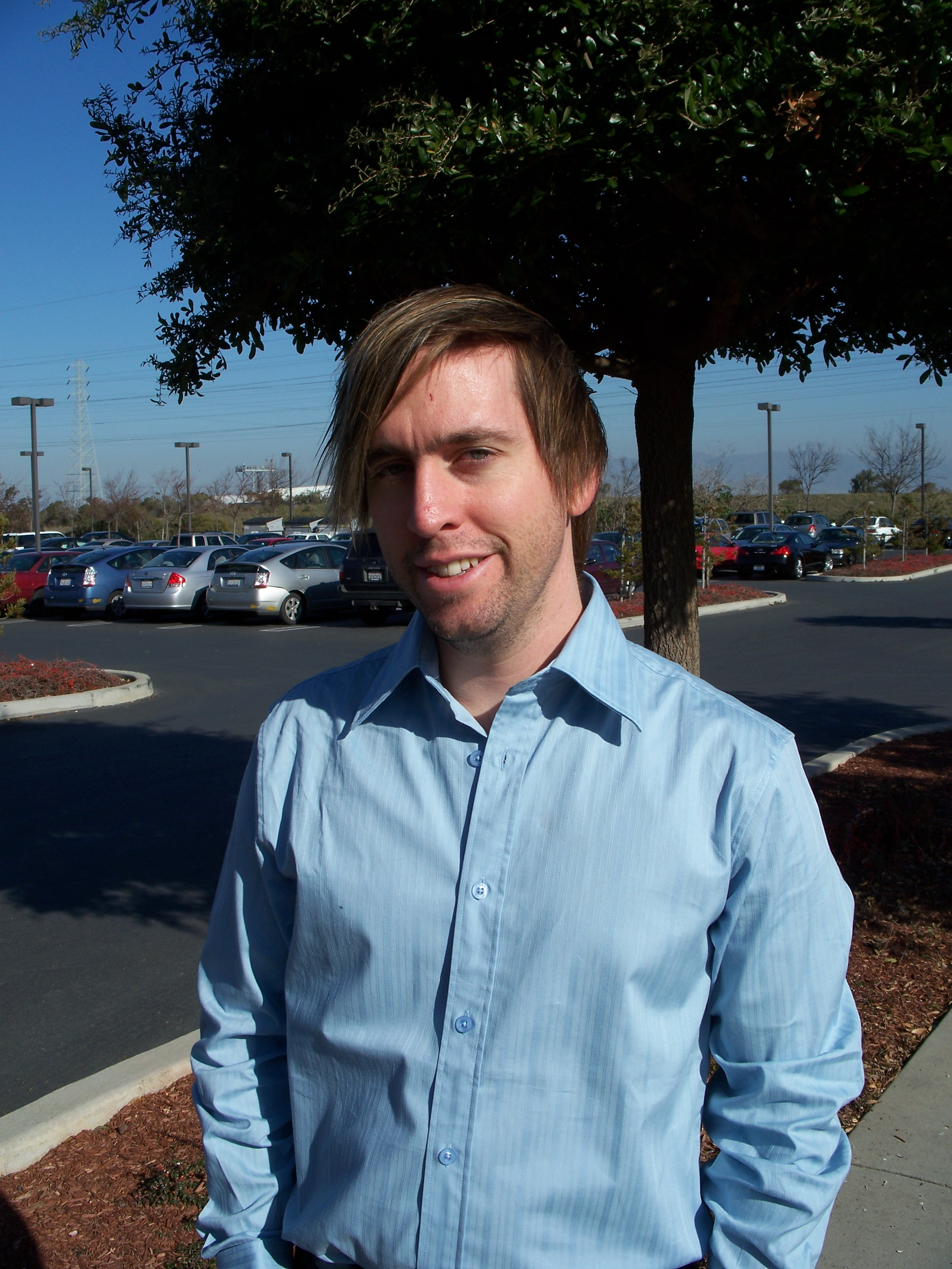 Aaron Seigo on KDE 4.0 release event. Google campus, Mountain View, California, USA